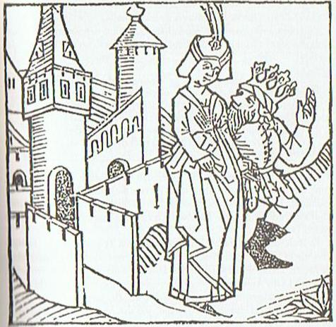 The dwarf Alberich seduces the mother of the king of the lampards. Woodcut from the "Straßburger Heldenbuch", ca. 1480